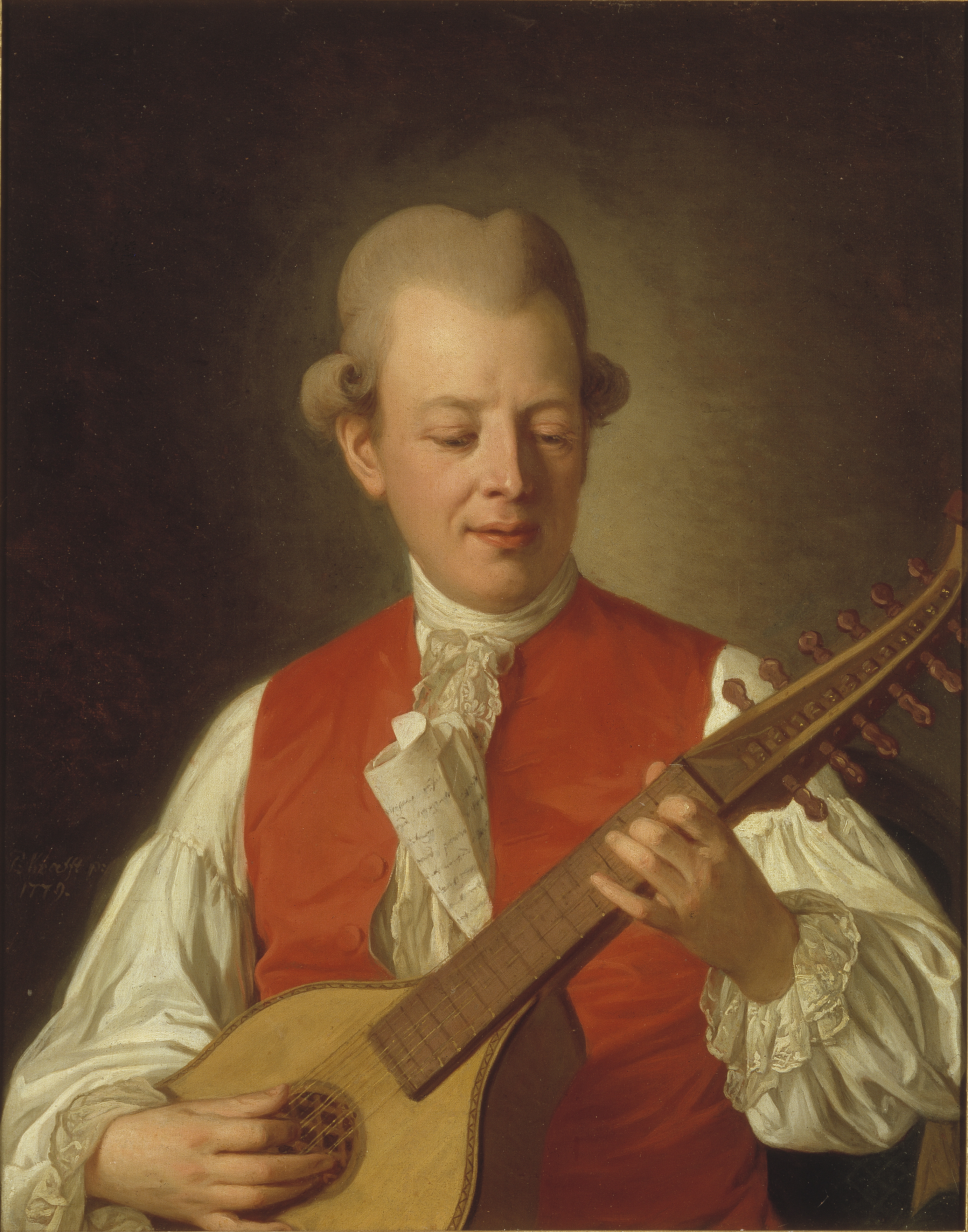 Poet and composer Carl Michael Bellman in shirtsleeves of the Swedish court dress, playing the Cittern.